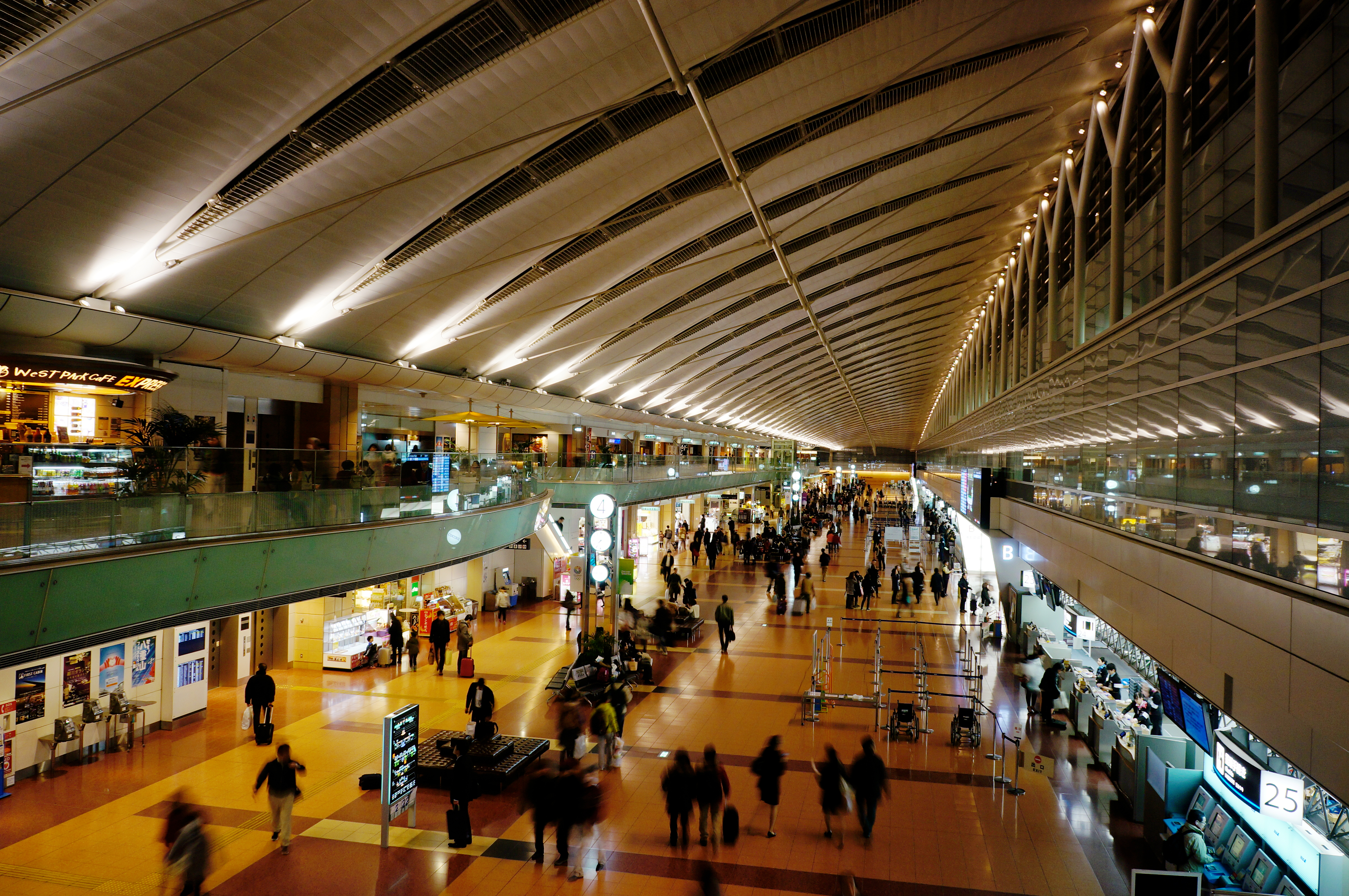 At Tokyo International Airport in Ota-ku, Tokyo, Japan